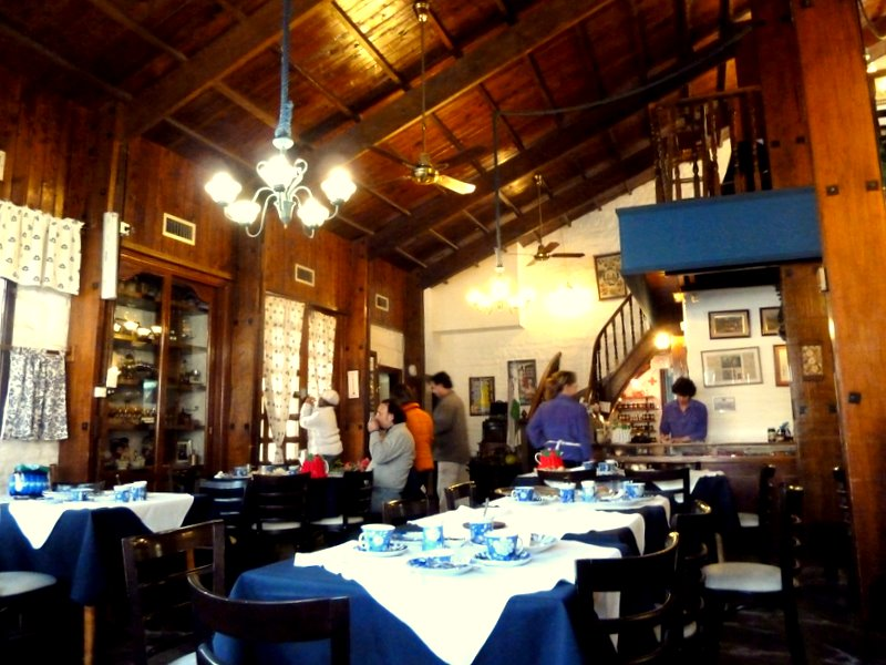 Ty Gwin Tea House. Gaiman, Chubut Province, Argentina.